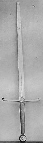 A photo of the Sword of State of the Isle of Man. This is cropped and edited version of: File:Sword of State (Isle of Man) 1.jpg.